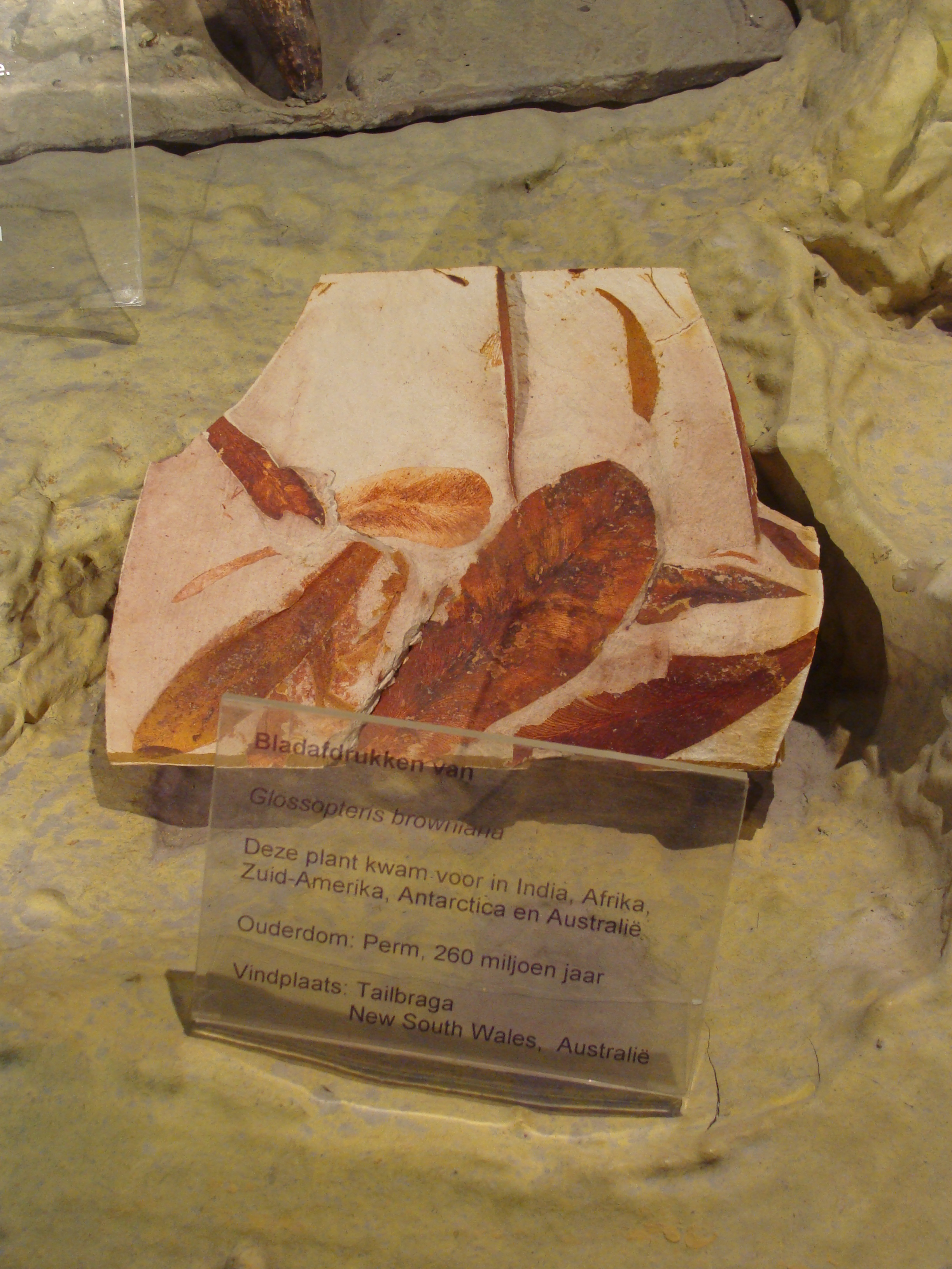 Glossopteris browniana fossil in Artis zoo, Amsterdam.